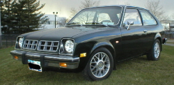 This is a picture of my 1978 Chevette.